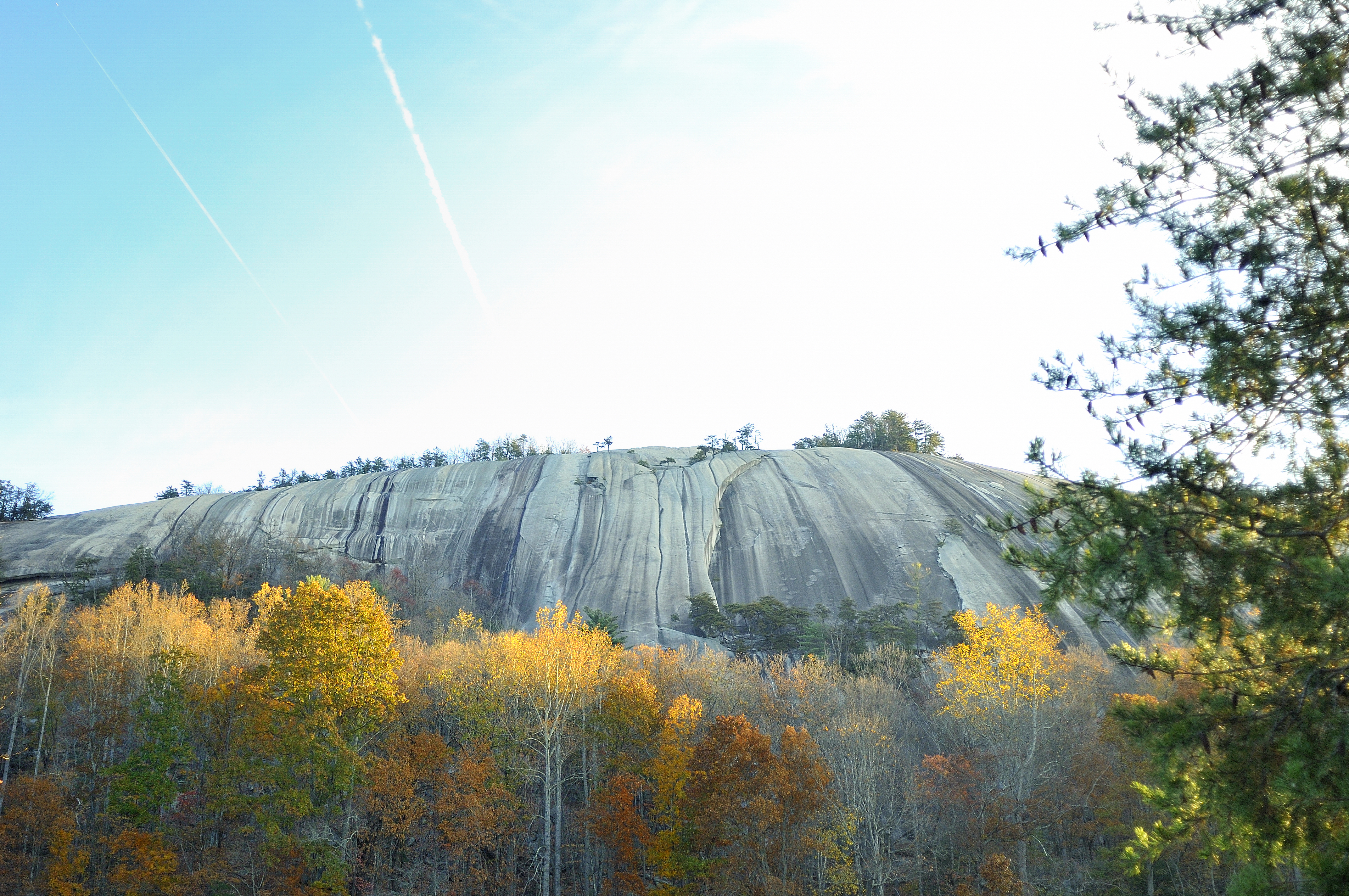 The world's largest piece of exposed granite:*In Stone Mountain State Park in Georgia.